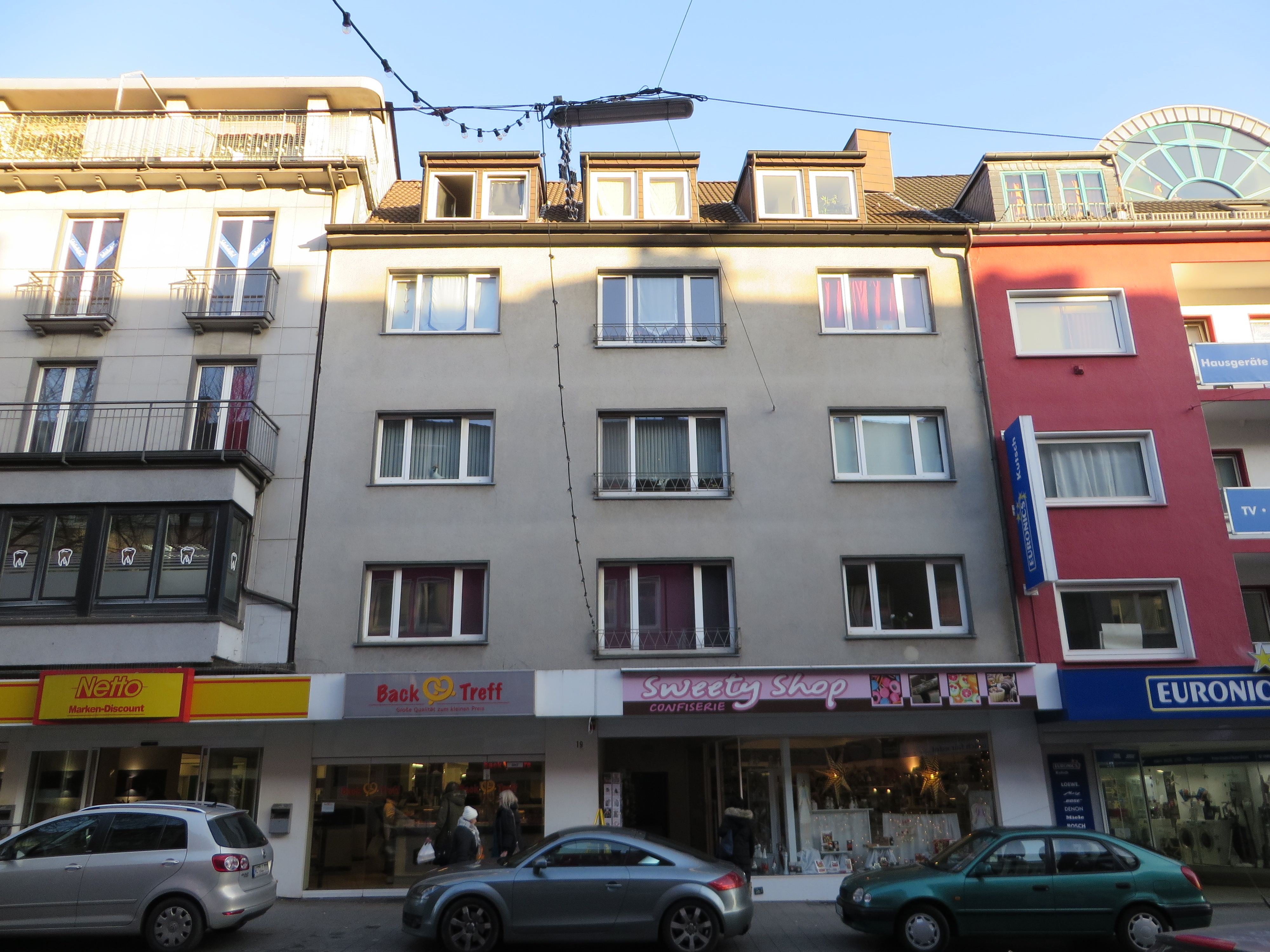 House Ruhrstraße 19 in Witten, Germany